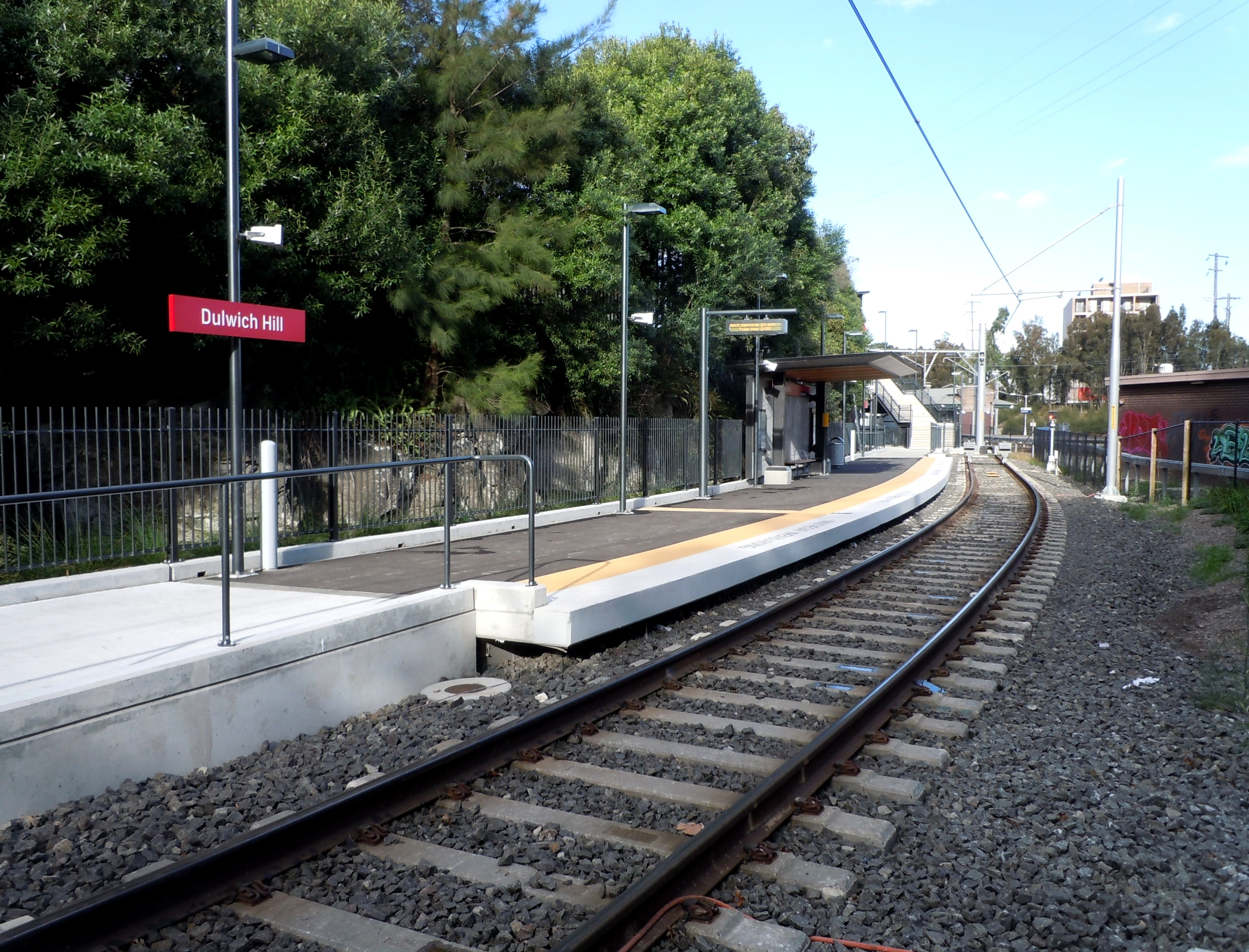 View of the platform at the Dulwich Hill light rail stop. The platform of Dulwich Hill railway station can be seen in the distance.